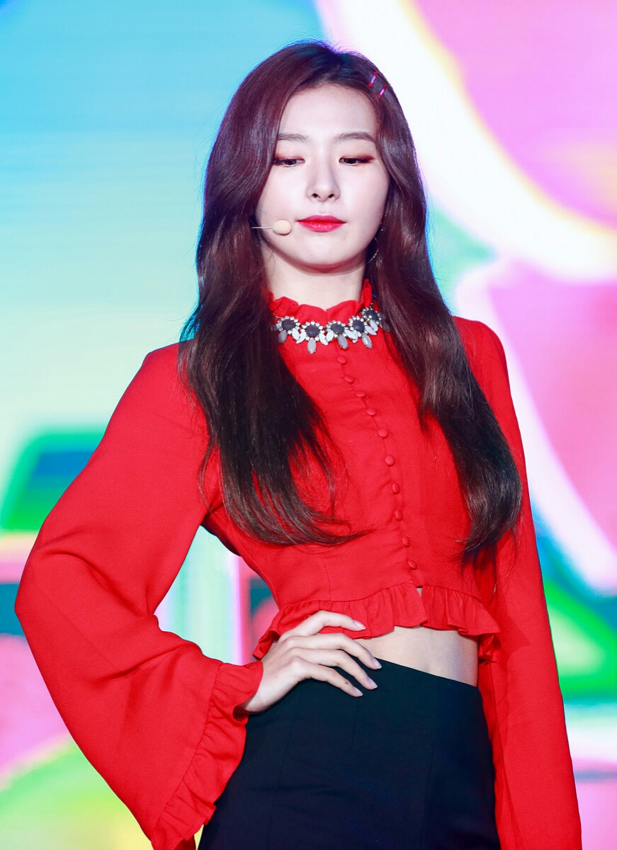 Kang Seul-gi at Korea Music Festival 2017 on October 01, 2017.